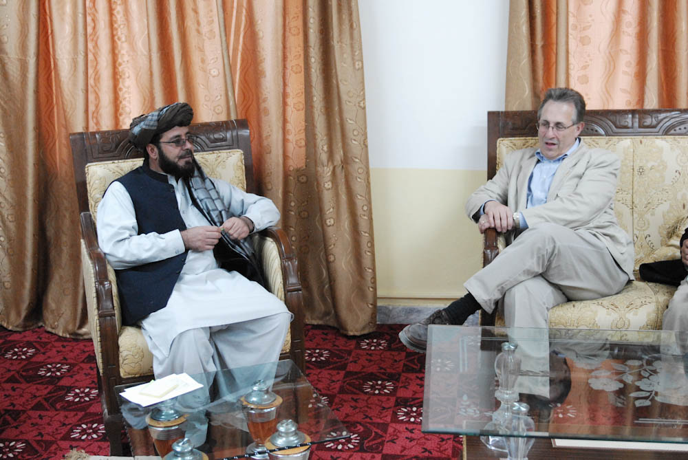 Ambassador Anthony Wayne along with Provincial Council Chairman, Dr. Nawab Waziri traveled to Paktika to meet with Gov. Moheebullah Samim and other local officials regarding rule of law and security.